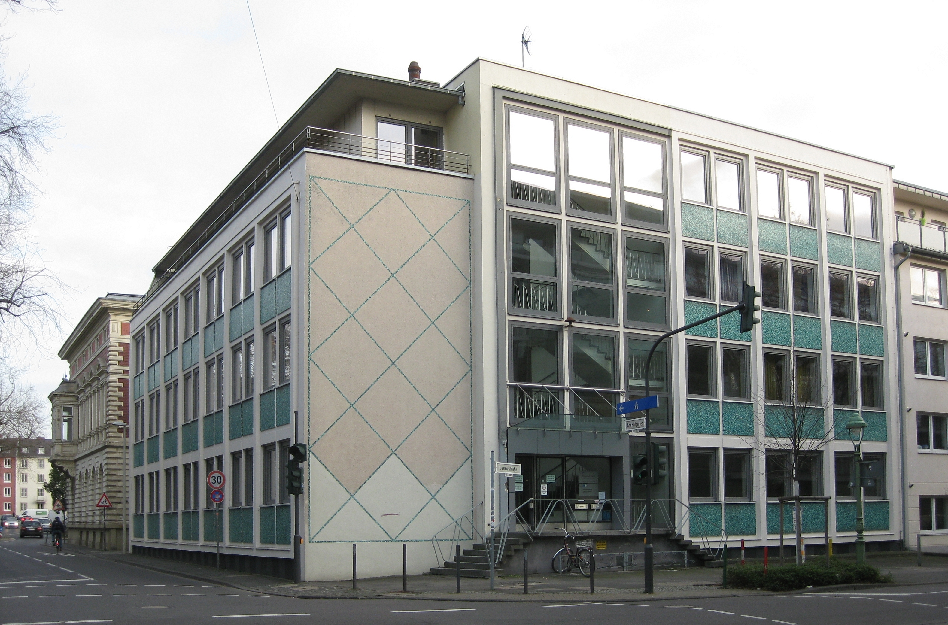 Germany, Bonn-Südstadt , Lennéstraße 1 / Ecke Am Hofgarten : Building of the former Iraqi embassy ; now used by the University of Bonn.